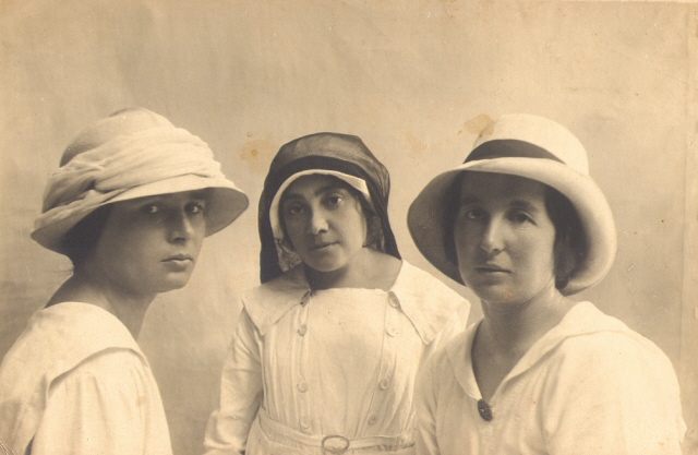 Founders of the kindergarden teachers\' assosication